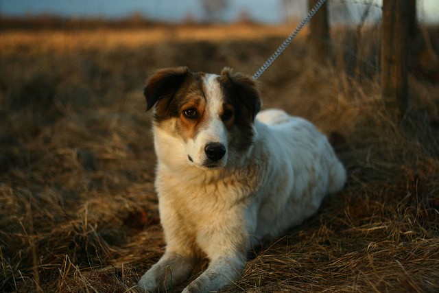 A young female Greek shepherd